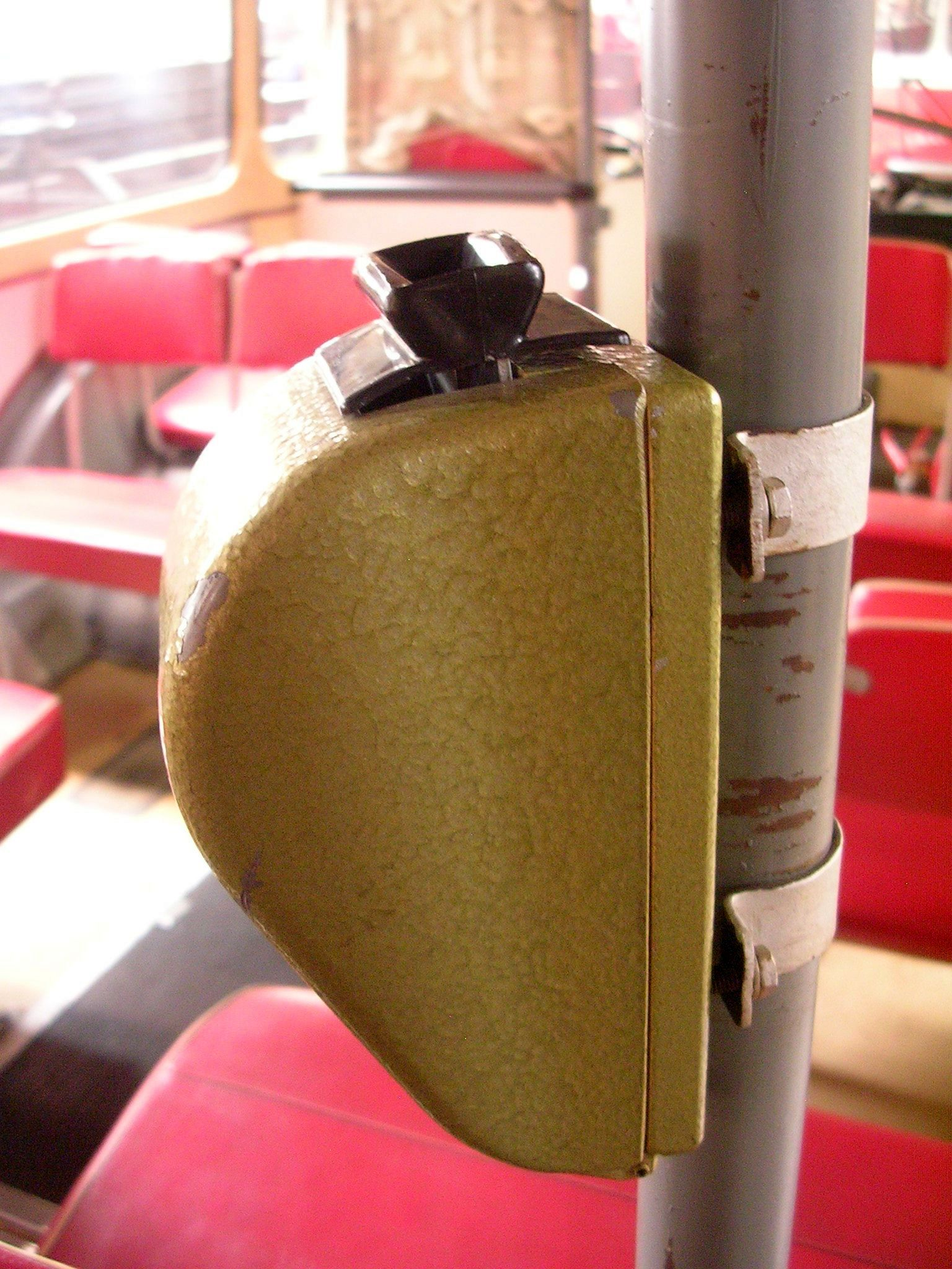 Střešovice, Prague, the Czech Republic. Bus Karosa ŠM 11. A ticket marker.